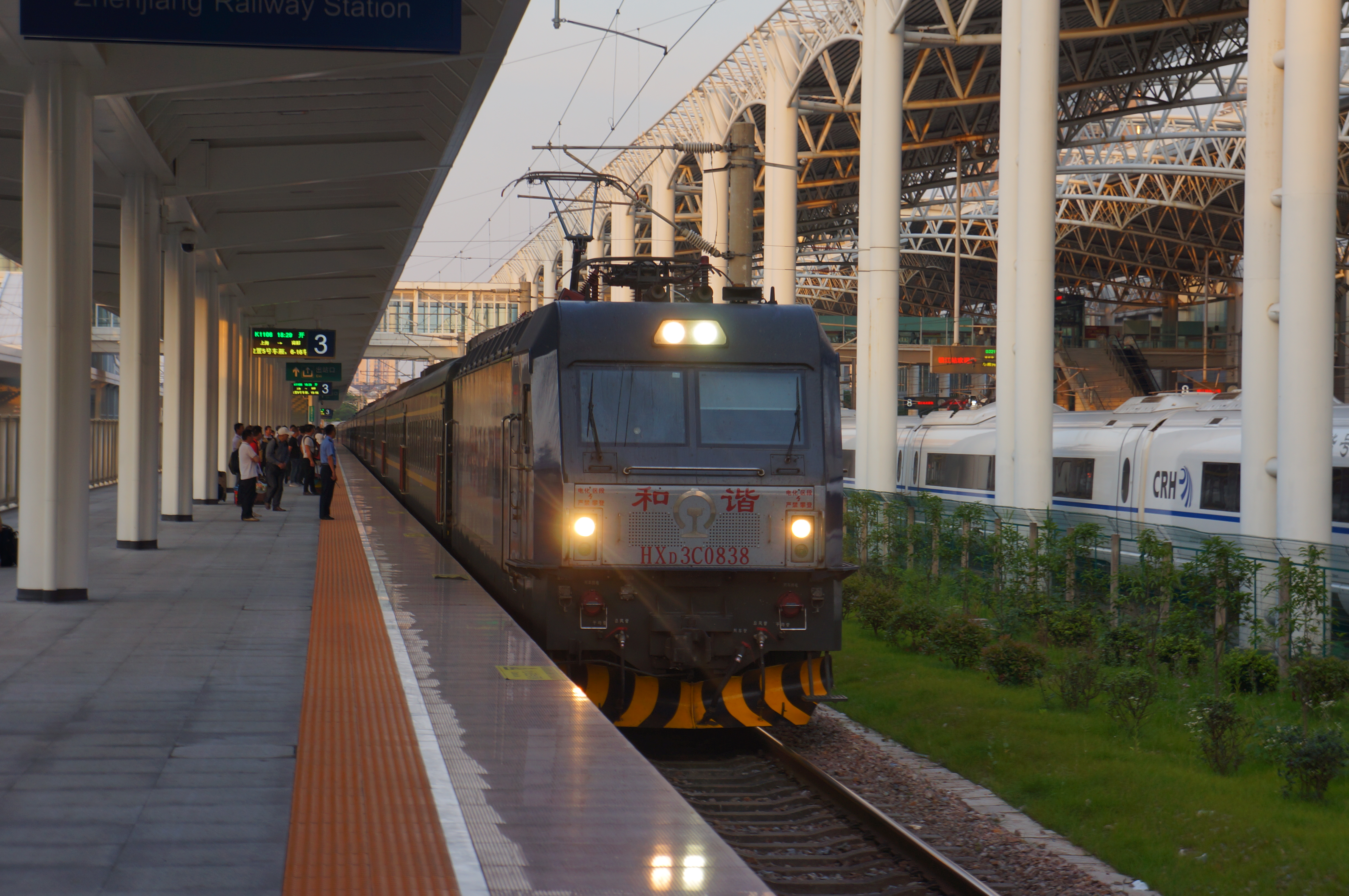 201705 HXD3C-0838 hauls K1106 enters into Zhenjiang Station